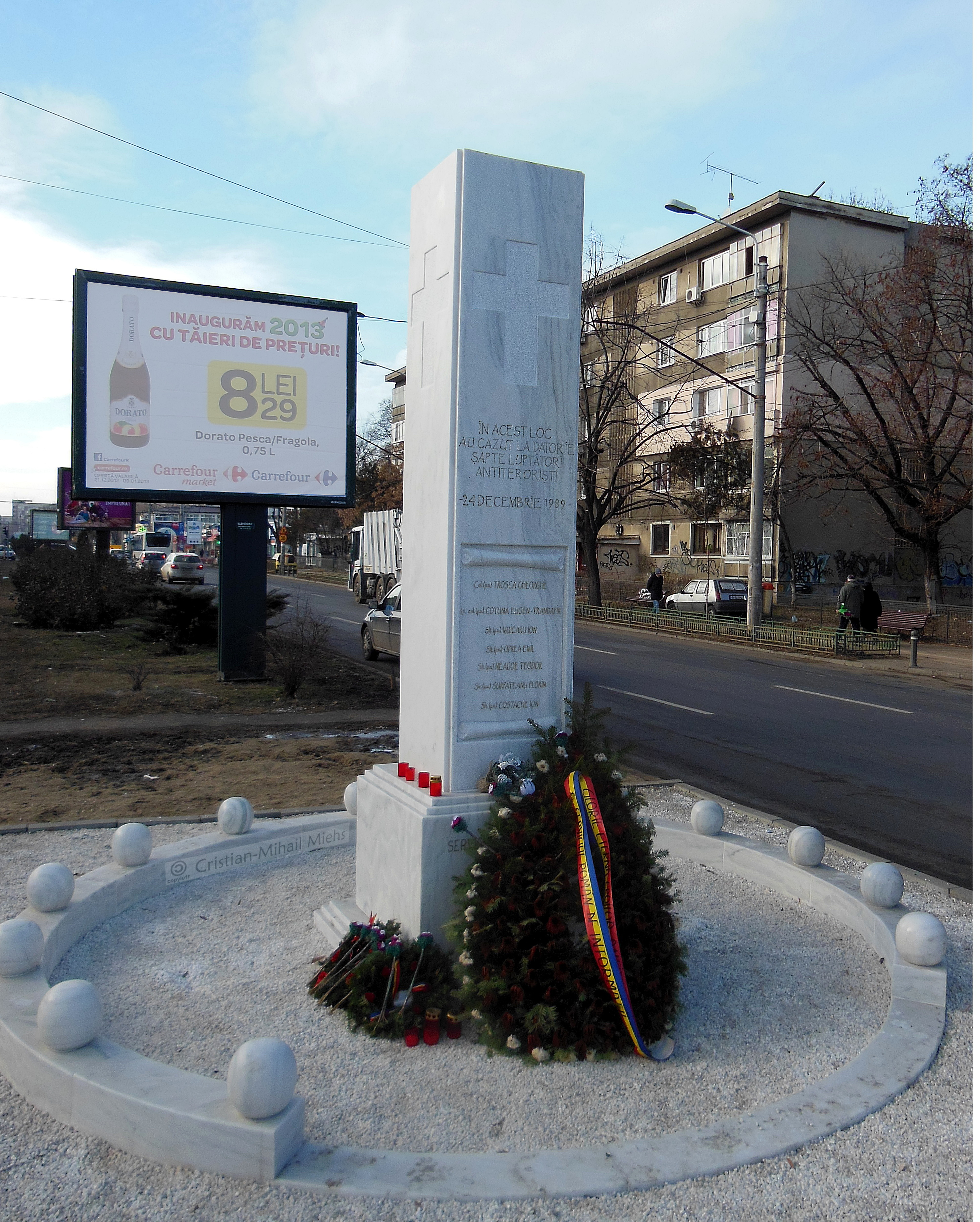 The Monument of the Antiterrorist fighter – Bucharest – erected in December 2012 to commemorate the Antiterrorist fighters fallen the day of December 24, 1989, during the Romanian Revolution